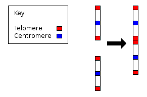 Made by Evercat, 8 September, 2007. Released public domain by Evercat. Diagram of ancestral fusion forming Human Chromosome 2.